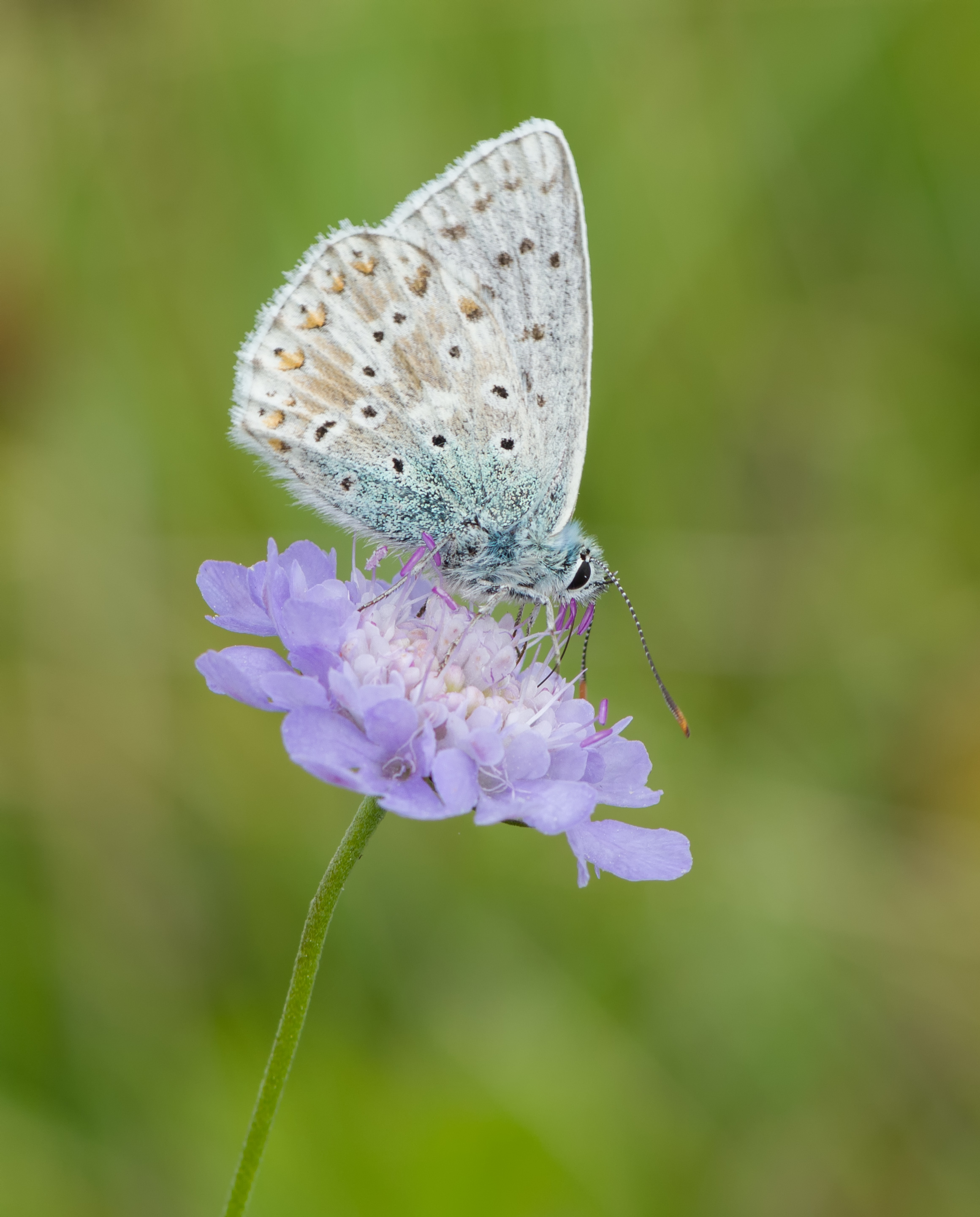 Chalkhill Blue (Polyommatus coridon) on Scabiosa columbaria